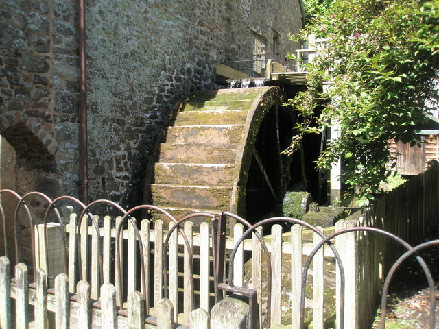 The water wheel at Dunster Mill